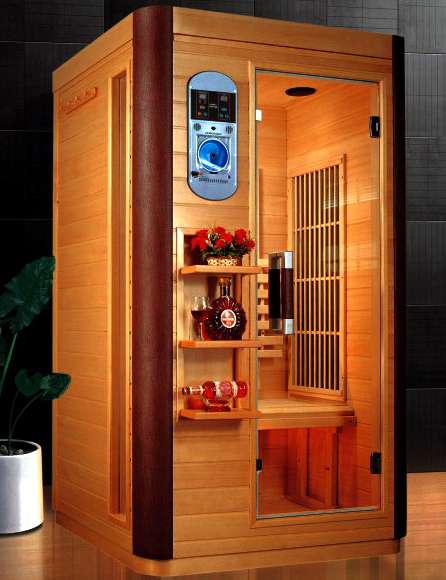 Infrasauna